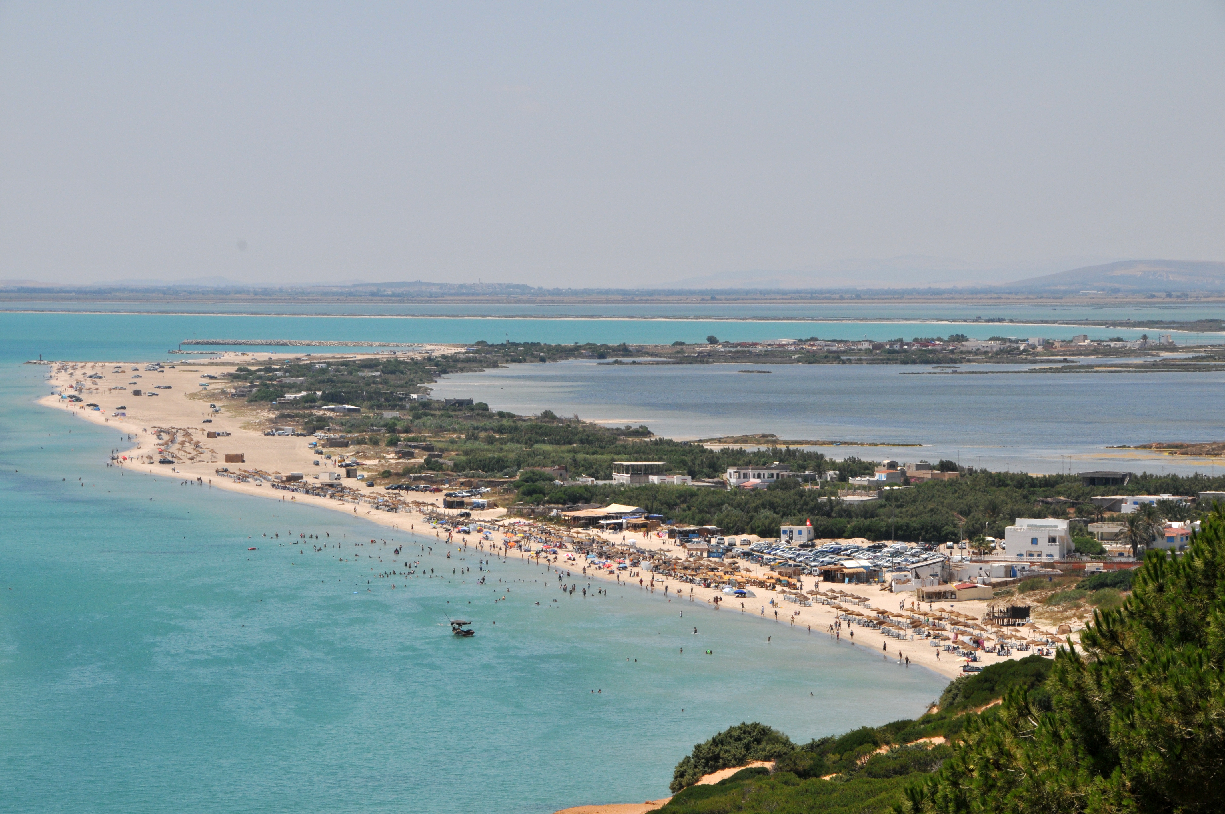 Sidi Ali El Mekki beach, north-est of Tunisia